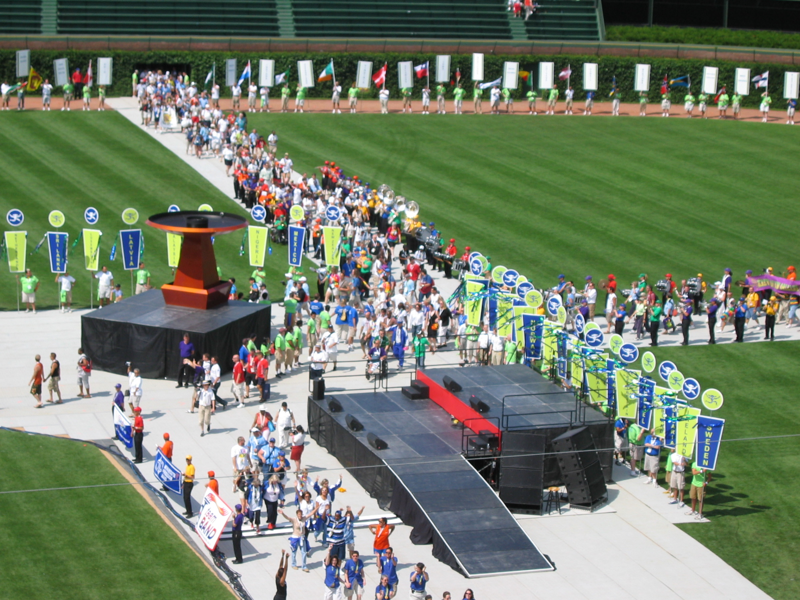 Gay Games Closing Ceremony 2006 - The athletes enter the park